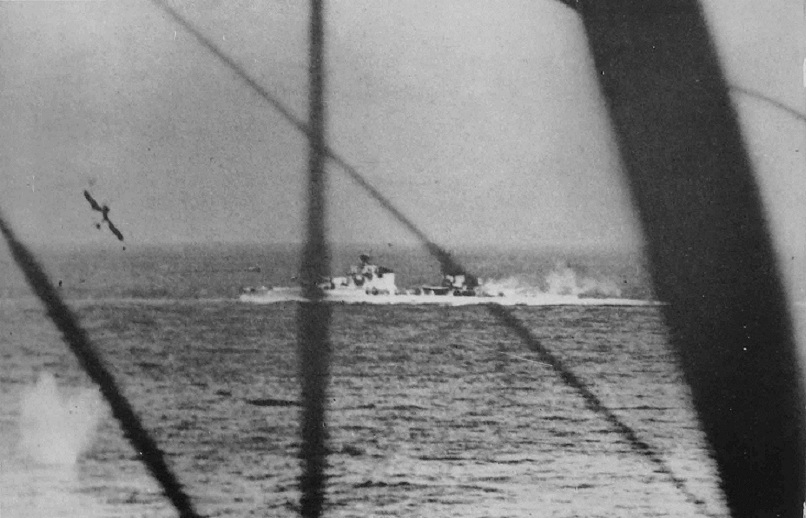 The Italian heavy cruiser Bolzano under attack by Swordfish of the Fleet Air Arm on 28th March 1941. The photograph taken from the second aircraft shows the splash of a torpedo entering the water.